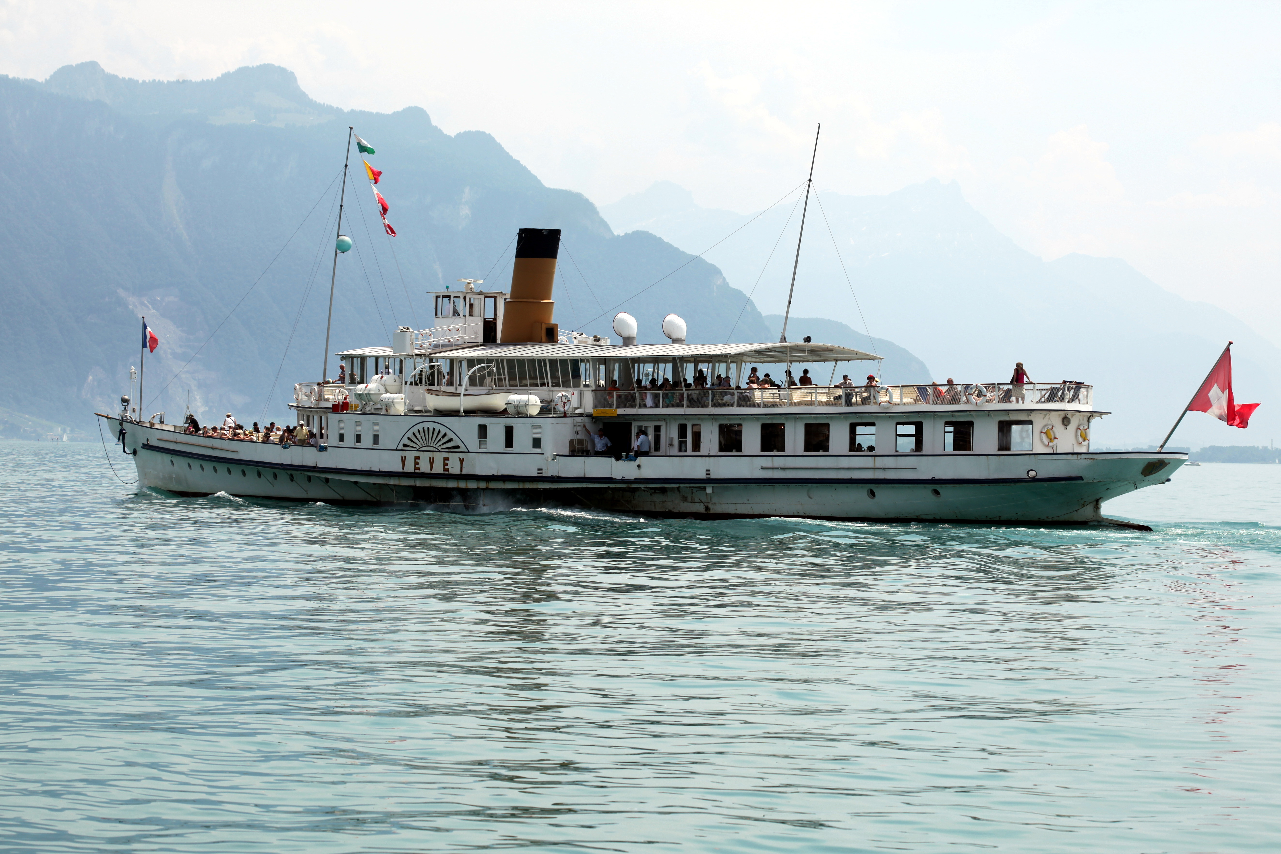 Swiss paddle steamer Vevey departing from Vevey dock.